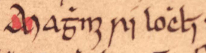 An excerpt from folio 46v of Oxford Bodleian Library MS Rawlinson B 489 (the Annals of Ulster). The excerpt concerns Magnús Óláfsson, King of Norway (died 1103). The excerpt gives Magnús' name and title.